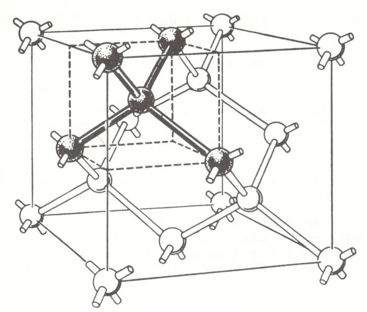 Crystal structure of the quadri valent Germanium and Silicium